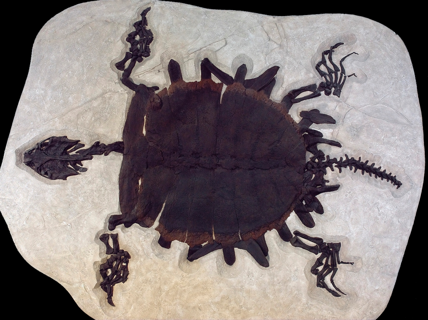 Axestemys byssina This 1.7 meter (5 foot 6 inch) softshell turtle is one of the largest turtles from Fossil Lake. During the Eocene, trionychid turtles reached maximum size. Today, North America's largest softshell turtles reach 51 cm (20 inches) in length.